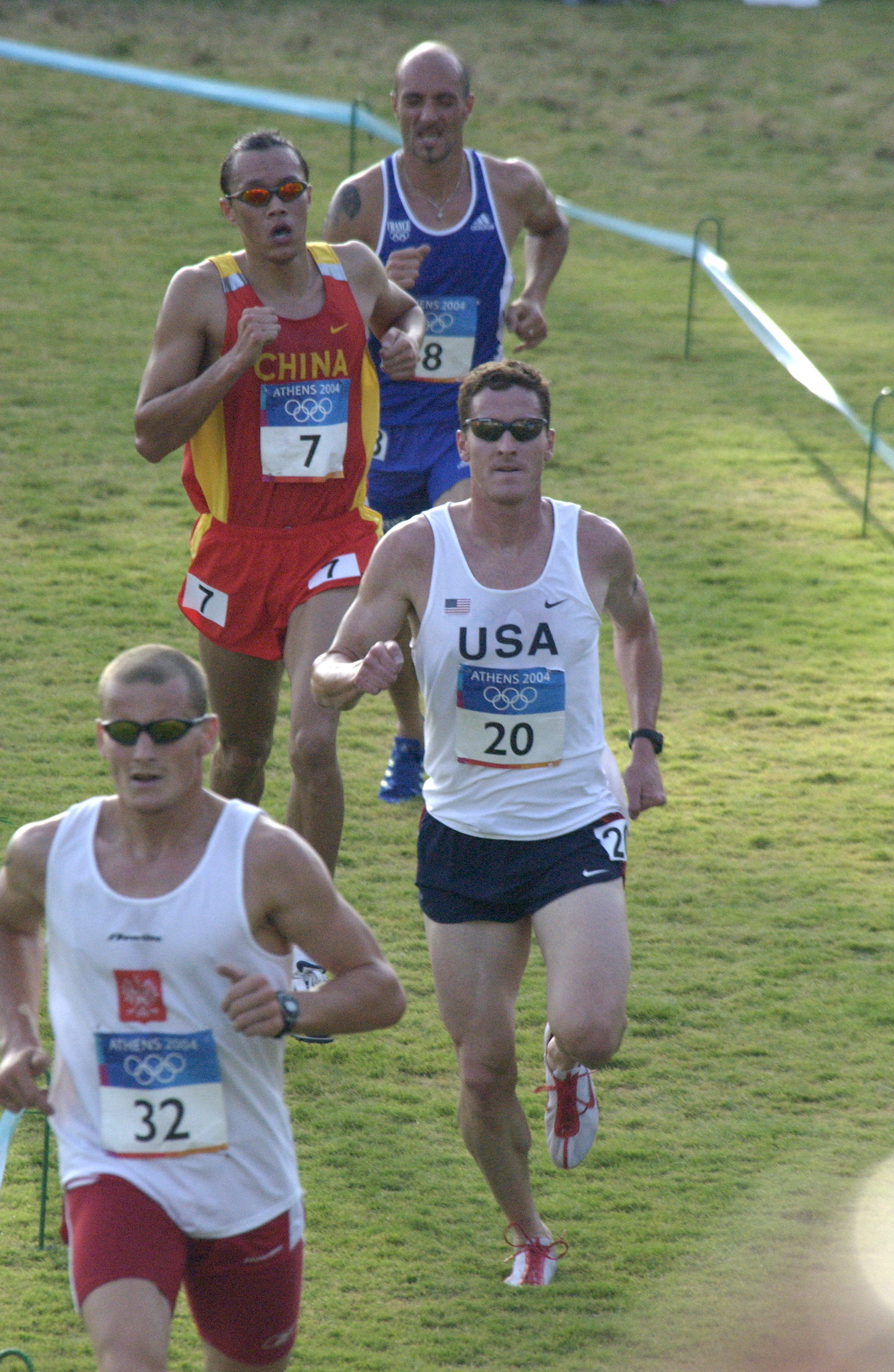 U.S. Army 1st Lt. Chad Senior (number 20) pulls for the finish line in the final round of the five-event men's modern pentathlon in the 2004 Olympics at the Goudi sports complex in Athens, Greece. Senior took 13th overall for the competition.